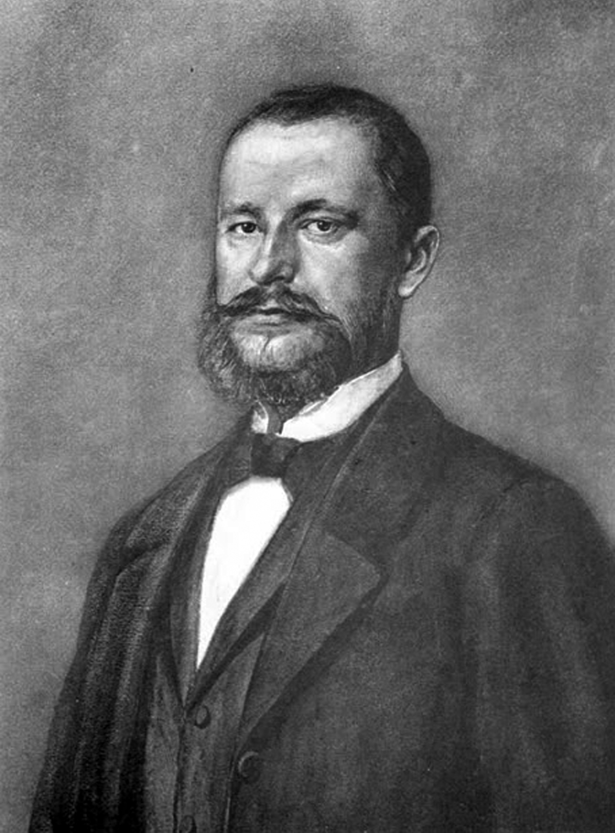 Milos Milojevic